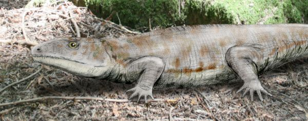 Eoherpeton